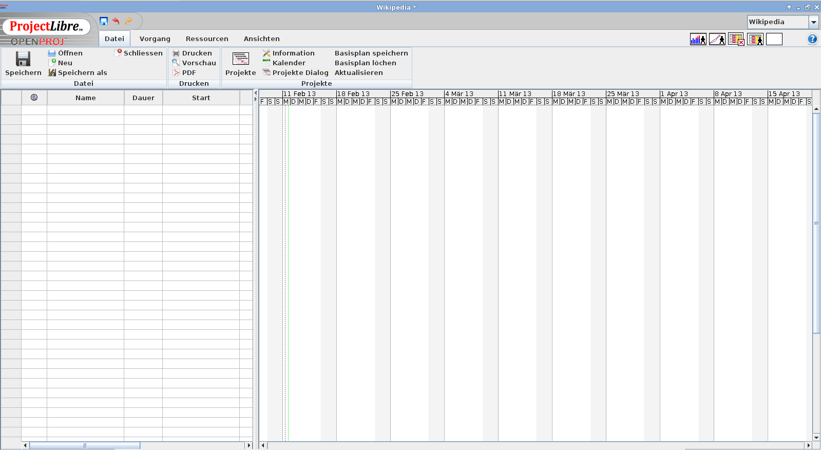 This is a screenshot from the software names Projectlibre